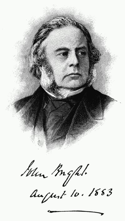 Engraving of John Bright after a photograph, see below